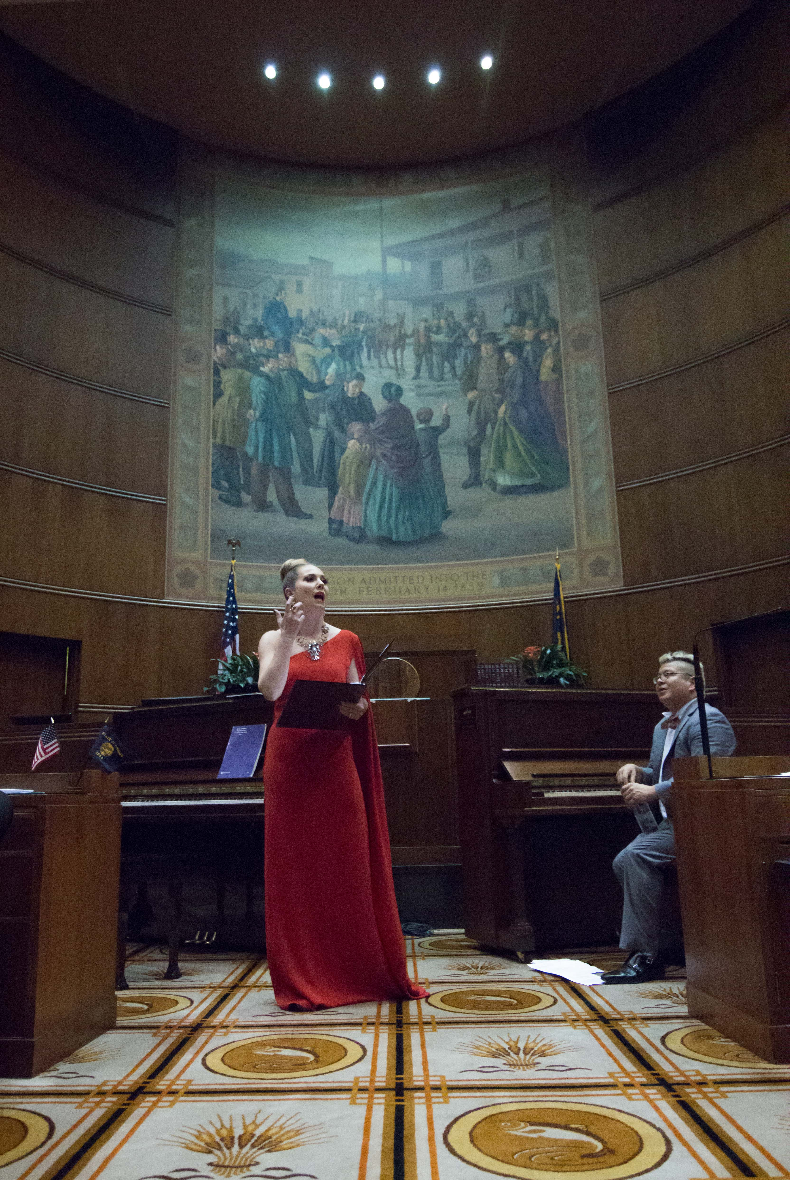 A piano concert with a vocalist takes place in the Oregon State Senate Chamber.